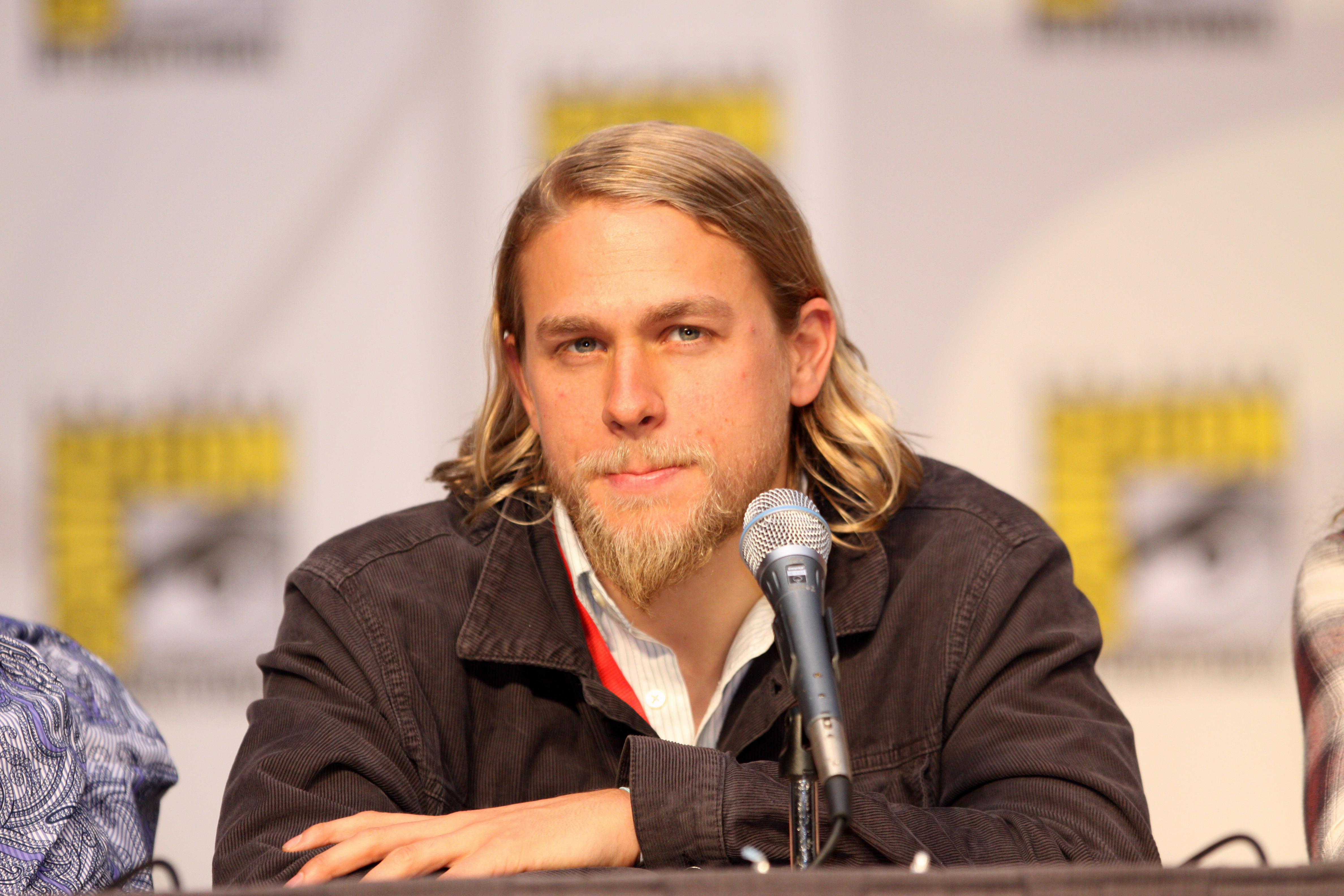 Actor Charlie Hunnam on the Sons of Anarchy panel at the 2010 San Diego Comic Con in San Diego, California.